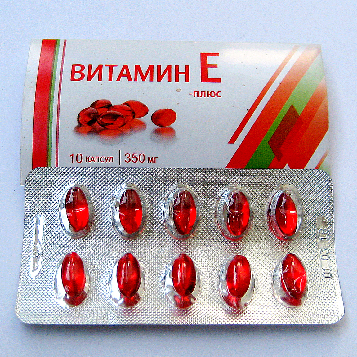 Vitamin E